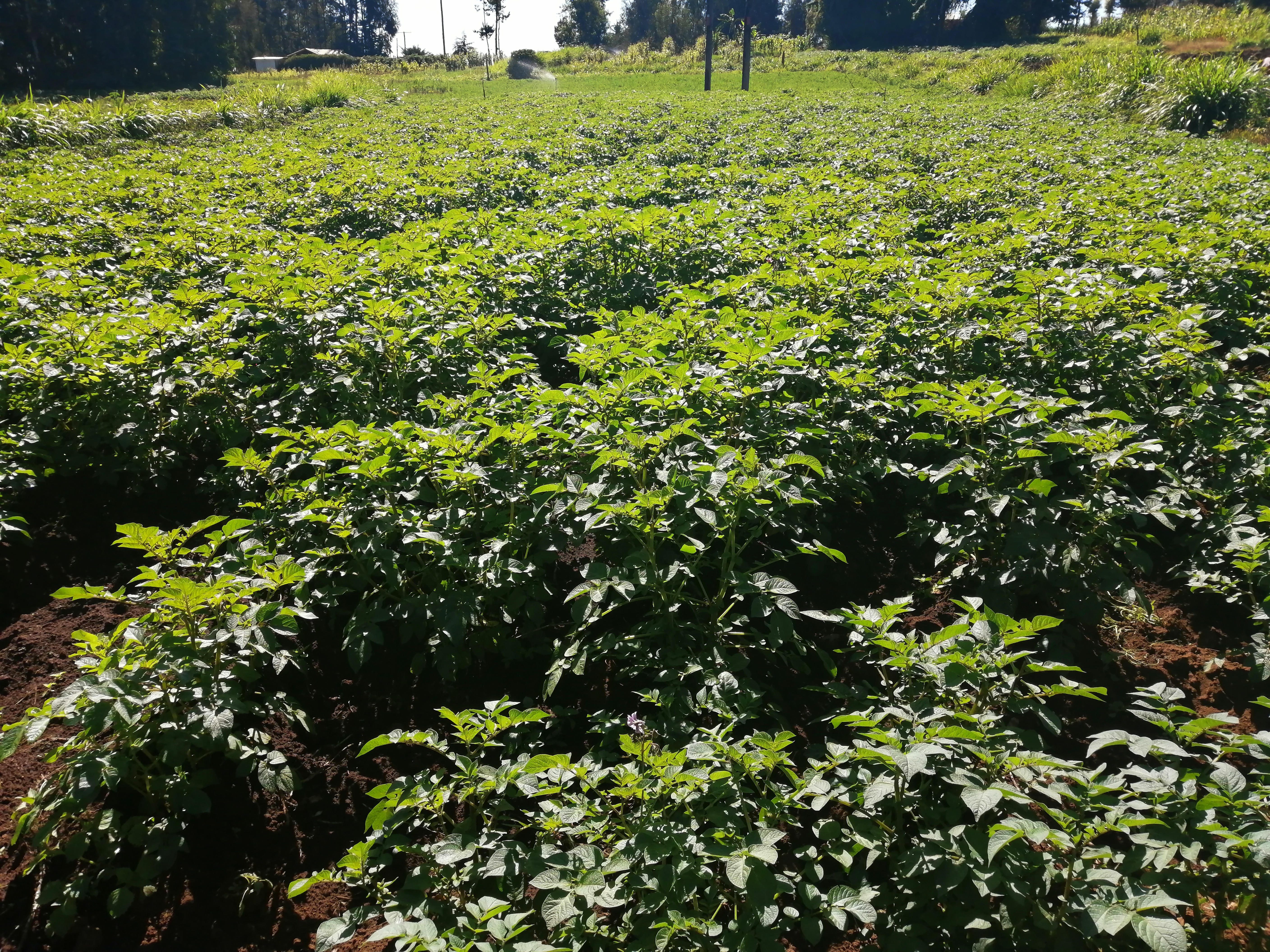 This is an image with the theme "Africa on the Move or Transport" from: Kenya